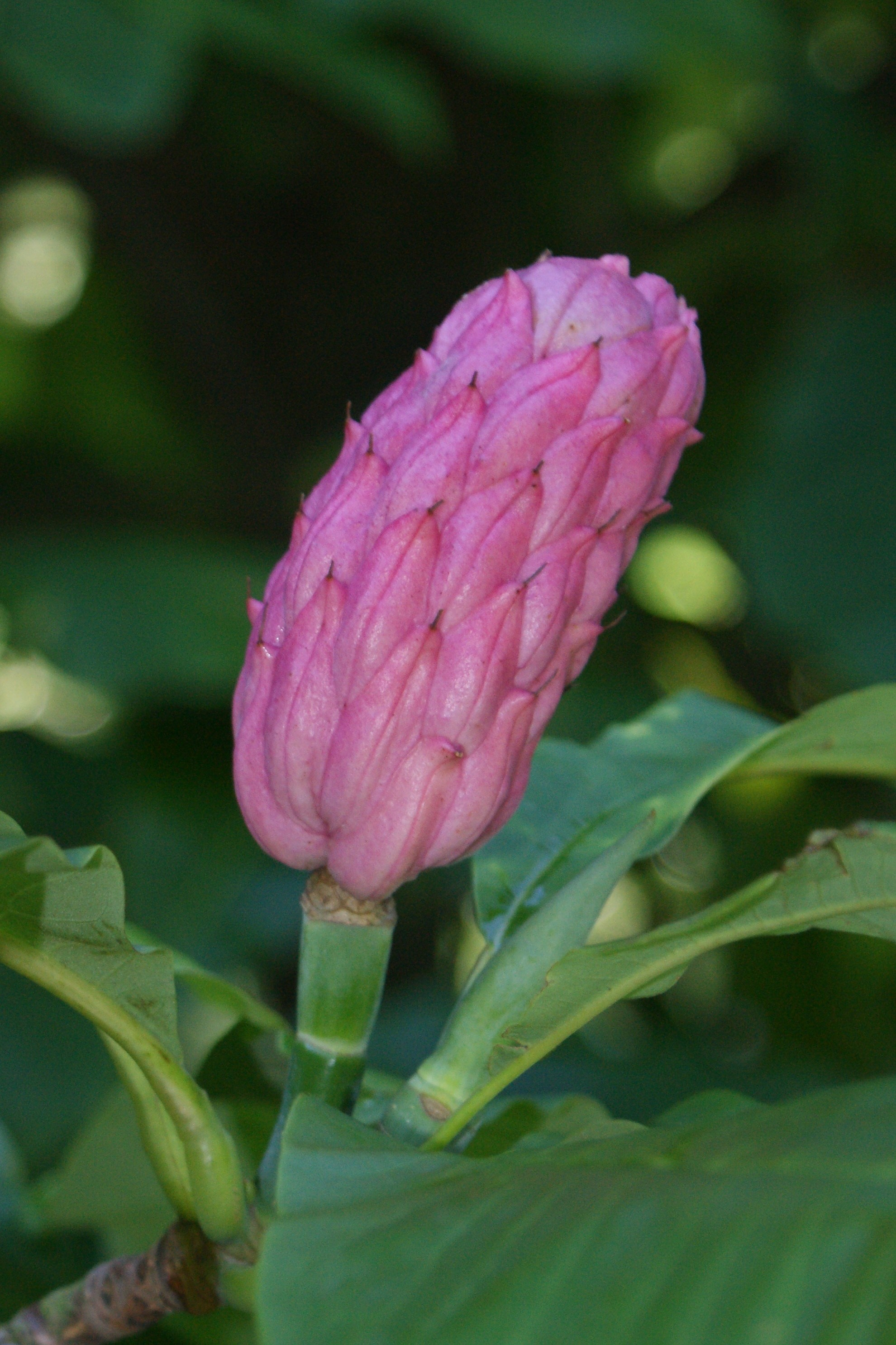 Fruit of Magnolia tripetala. Arboretum in Glinna (NW Poland)